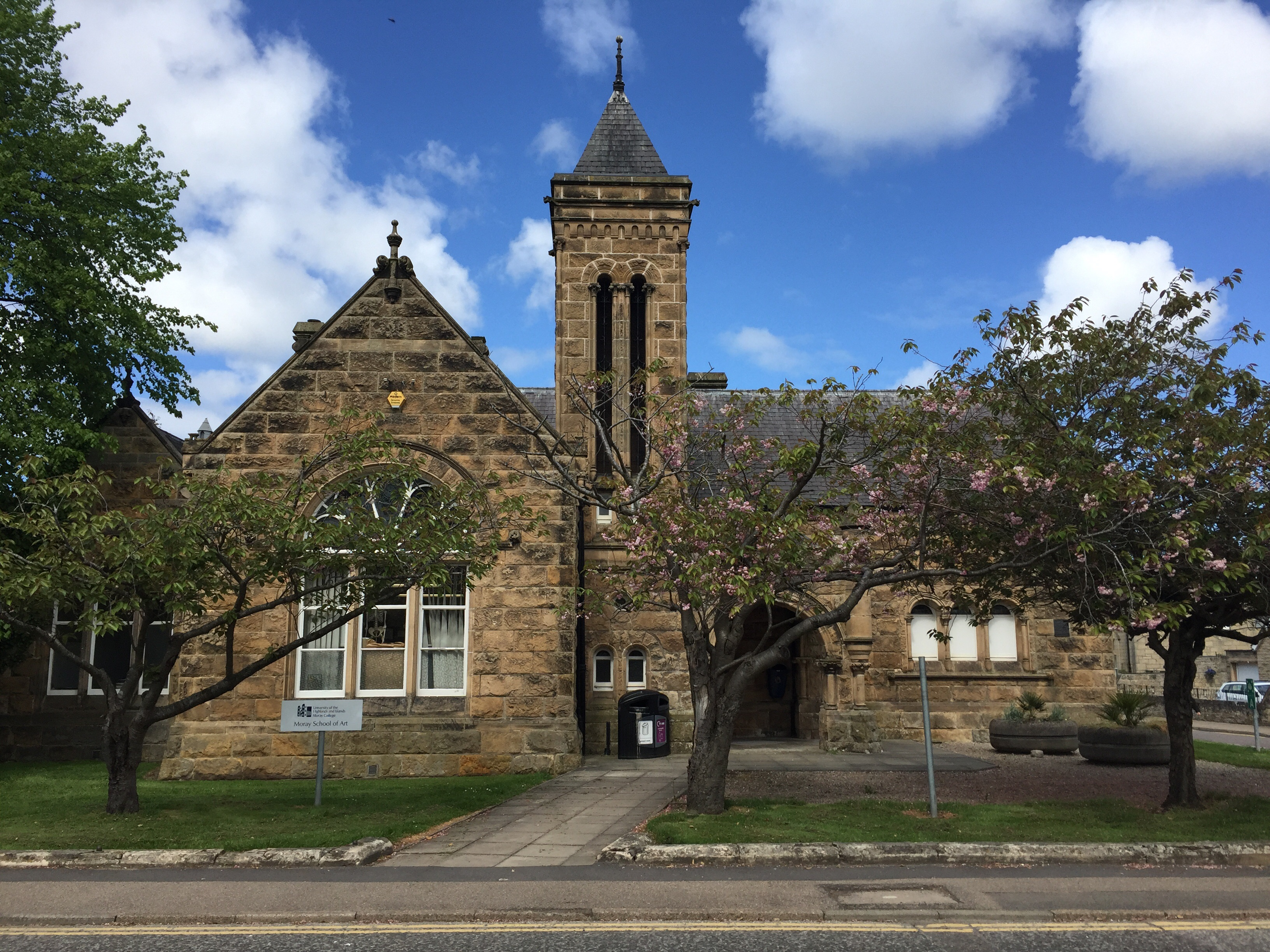 Elgin, Gordon Street, Moray College Of Further Education